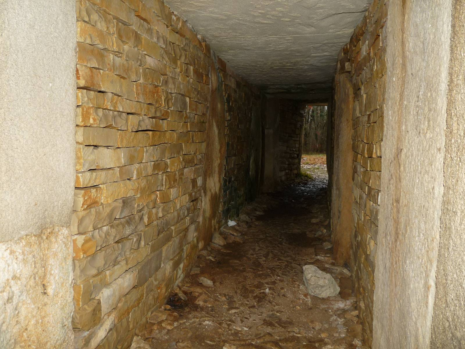 Dolmen and tumulus in the forest of Boixe, Vervant, Charente, SW France